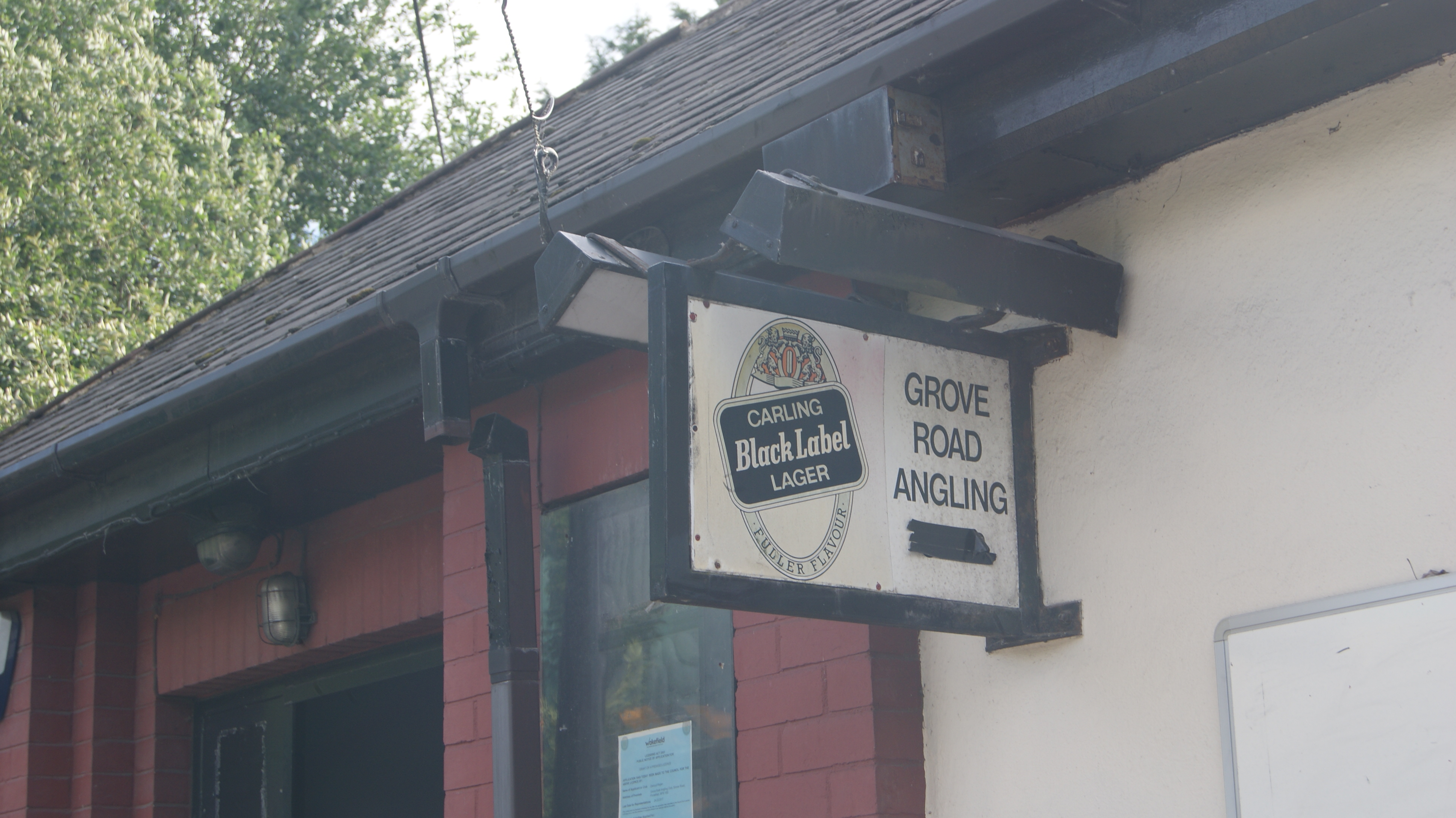 Grove Road Angling Club, Pontefract, West Yorkshire. Taken on the evening of Friday the 5th of July 2019.